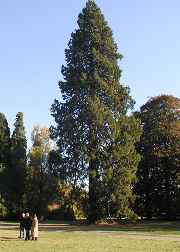 Sequoiadendron giganteum (Giant Sequoia) at Westonbirt Arboretum, Gloucestershire, England. An arboretum is a specially planted collection of trees, normally open to the public. Westonbirt has 18000 trees covering 260 hectares. Taken by Adrian Pingstone in October 2003 and released to the public domain.